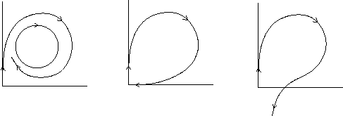 Author: Claire Postlethwaite. Made in xfig.